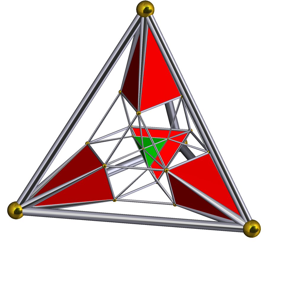 Runcinated_5-cell, tetrahedron cells shown, triangular prisms hidden.